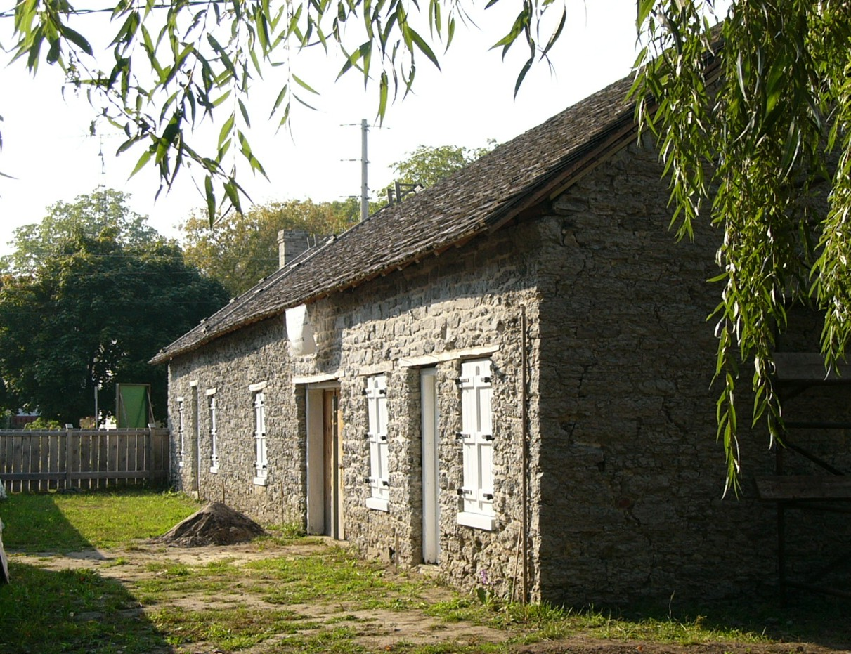 This limestone building, commonly known as the "barracks", is being restored by the Cobourg Museum Foundation for use as the Exhibition Hall of the Sifton-Cook Heritage Centre scheduled to open in 2012. Located at the south-east corner of Durham and Orr Streets in downtown Cobourg, Ontario, Canada.